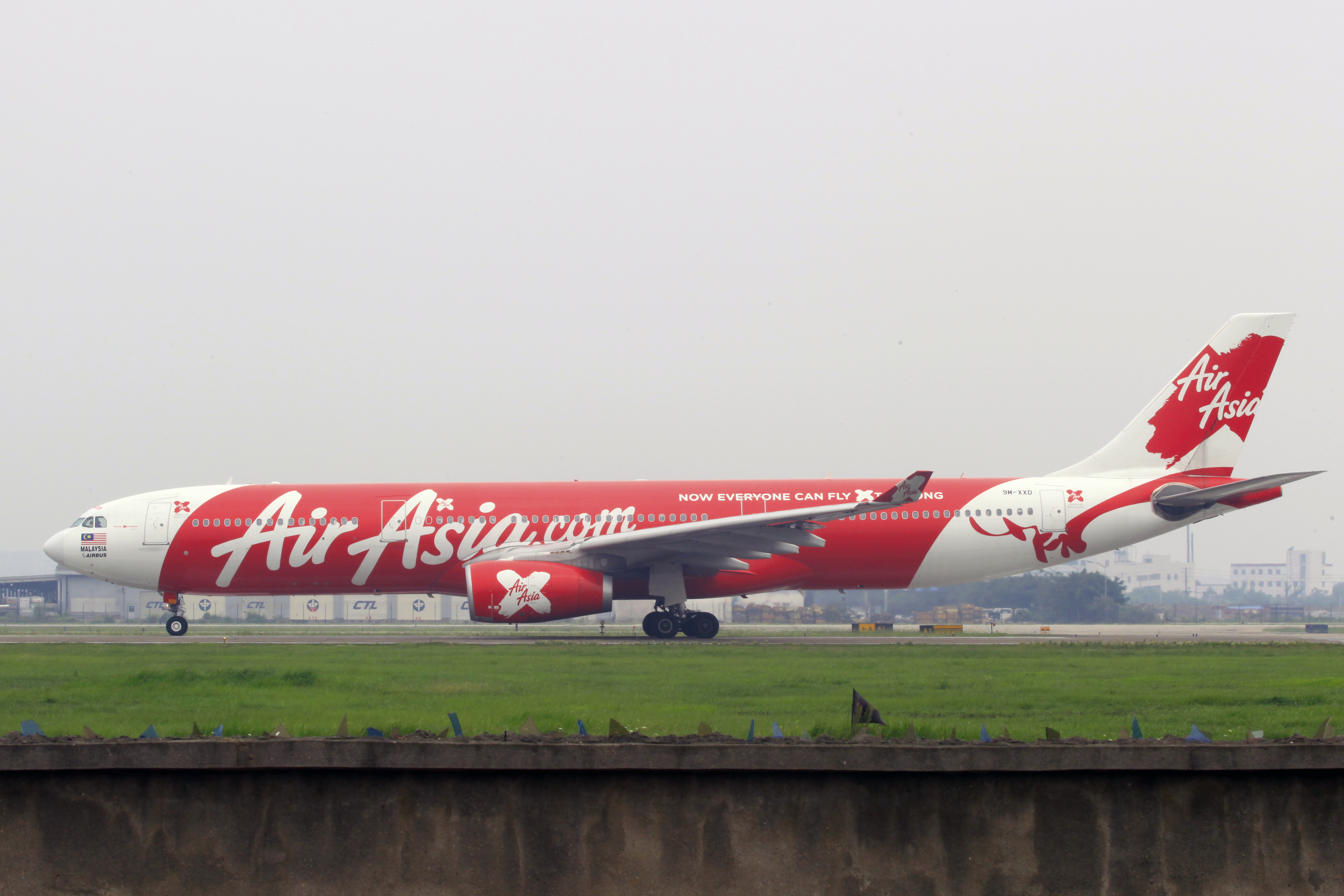 9M-XXD | AirAsia X | Airbus A330-343X | Chengdu Shuangliu International Airport [CTU]